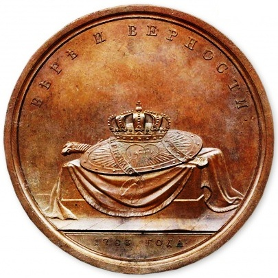 A commemorative of the Treaty of Georgievsk between Russia and Georgia, produced by Timofey Ivanov of the Saint Petersburg Mint in 1790.